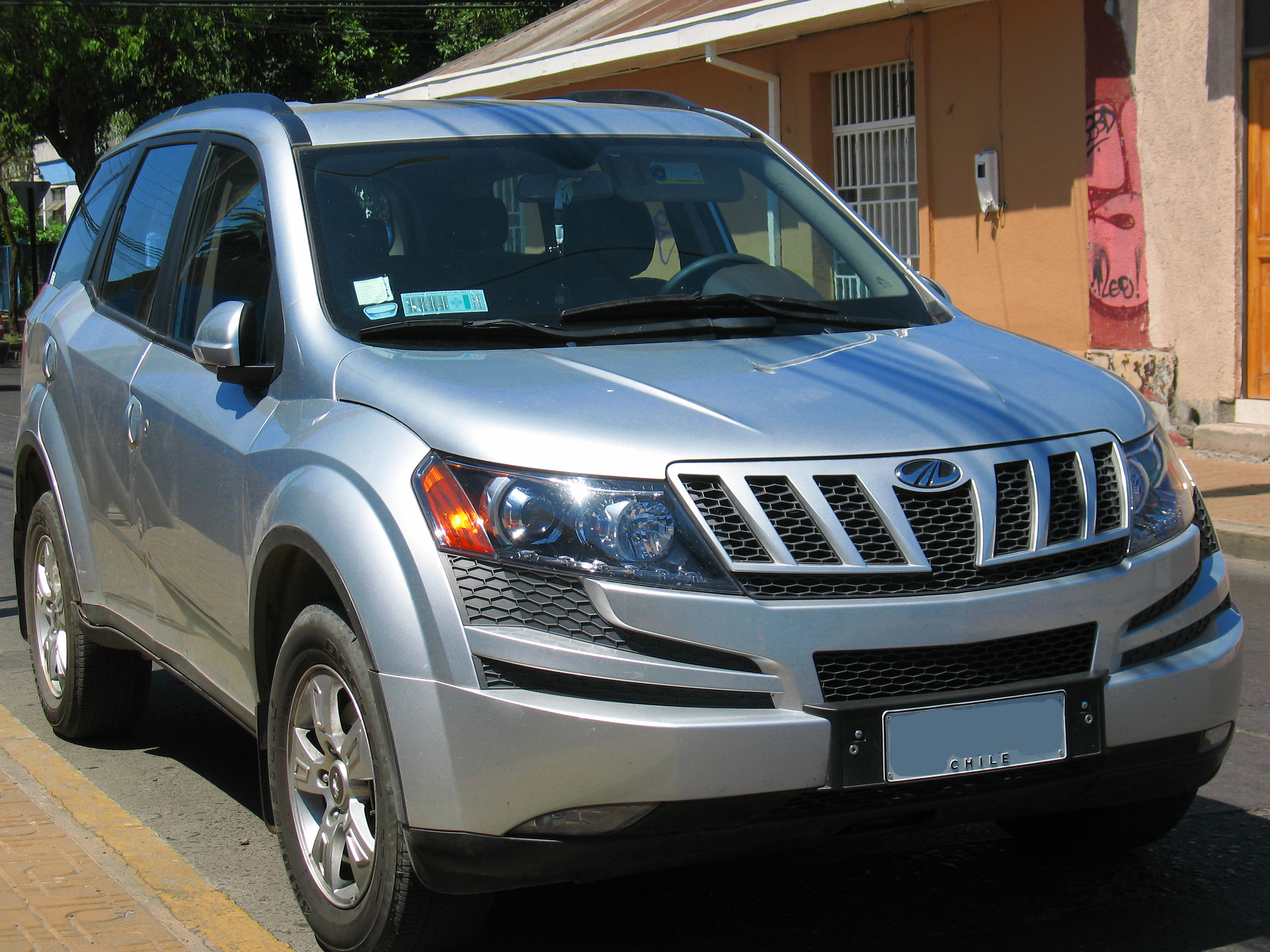 What a mess!